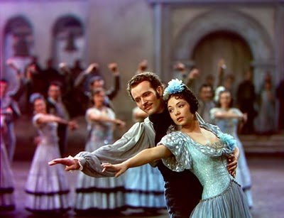 Charles Collins and Steffi Duna in Dancing Pirate (1936) - cropped screenshot